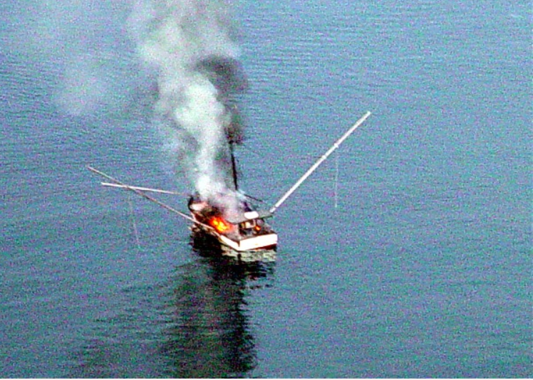 The American fish tender Samoke burning off Legma Island, south of Sitka and west of Goddard, Alaska.